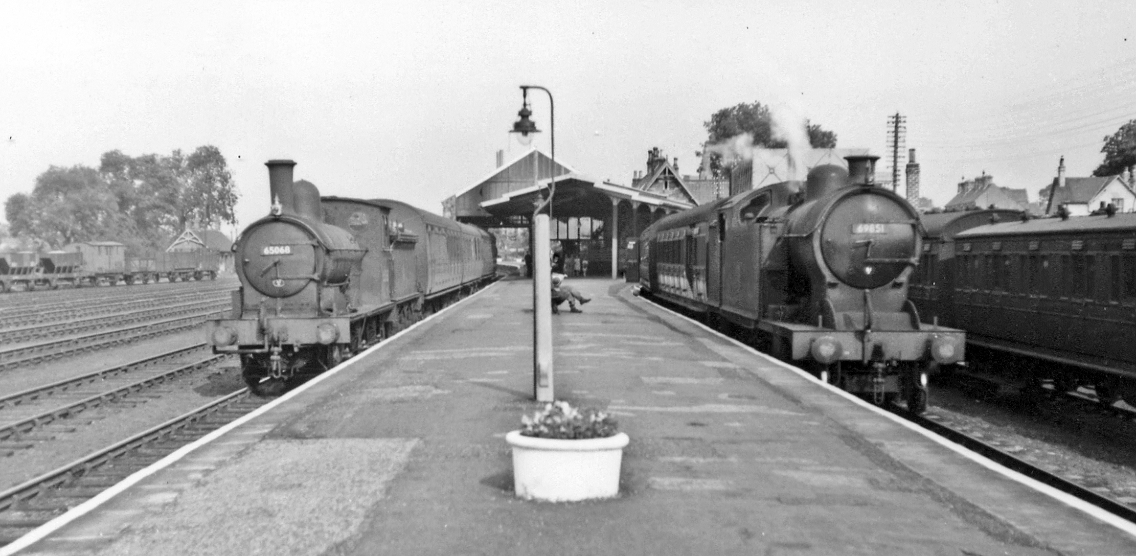 Barnard Castle station, with trains 1953.View east on the island platform, with two trains: on the left, Worsdell NER J21 0-6-0 No. 65068 (built 12/1890 as No. 300, 1946 LNER No. 5068, withdrawn 6/54) on a Darlington - Kirby Stephen - Penrith train; on the right is NER A8 4-6-2T No. 69851 (built 10/1913 as No. 2144, withdrawn 11/58) on a Sunderland - Middleton-in-Teesdale train. Barnard Castle station was closed 30/11/64 (passengers), 6/4/65 to goods, following closure of the Middleton line; the Darlington - Penrith line over Stainmore closed 20/1/62 and that from Bishop Auckland from 20/6/62.